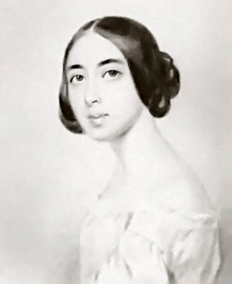 Pauline Viardot